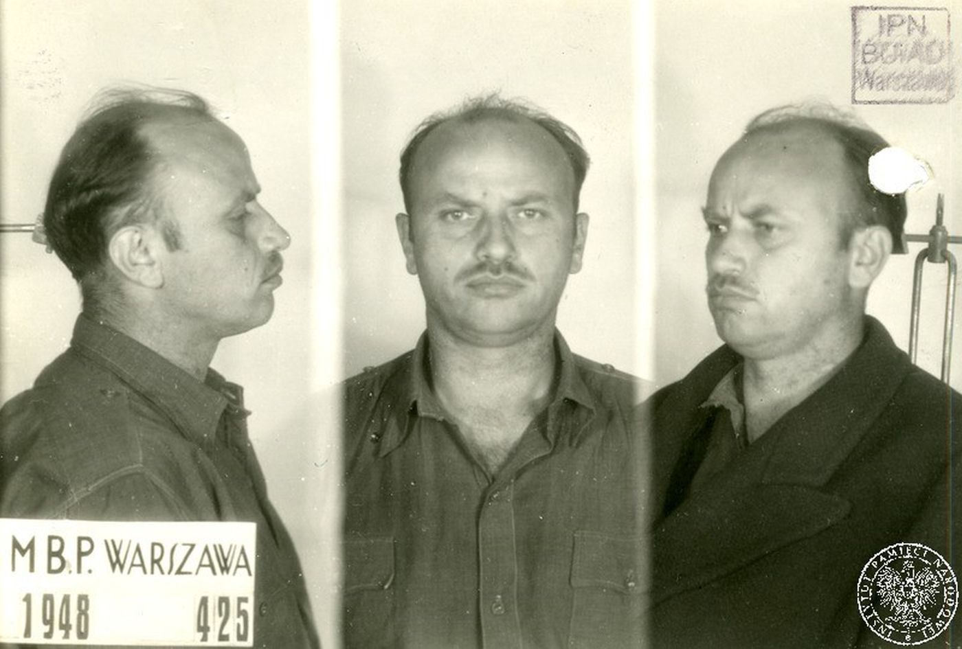 Zygmunt Szendzielarz (1910-1951) major of Polish Army , commander of the Polish 5th Wilno Home Army Brigade.